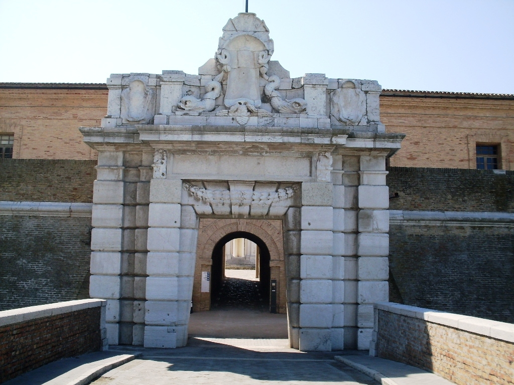 Italy Ancona Mole Vanvitelliana - main entry